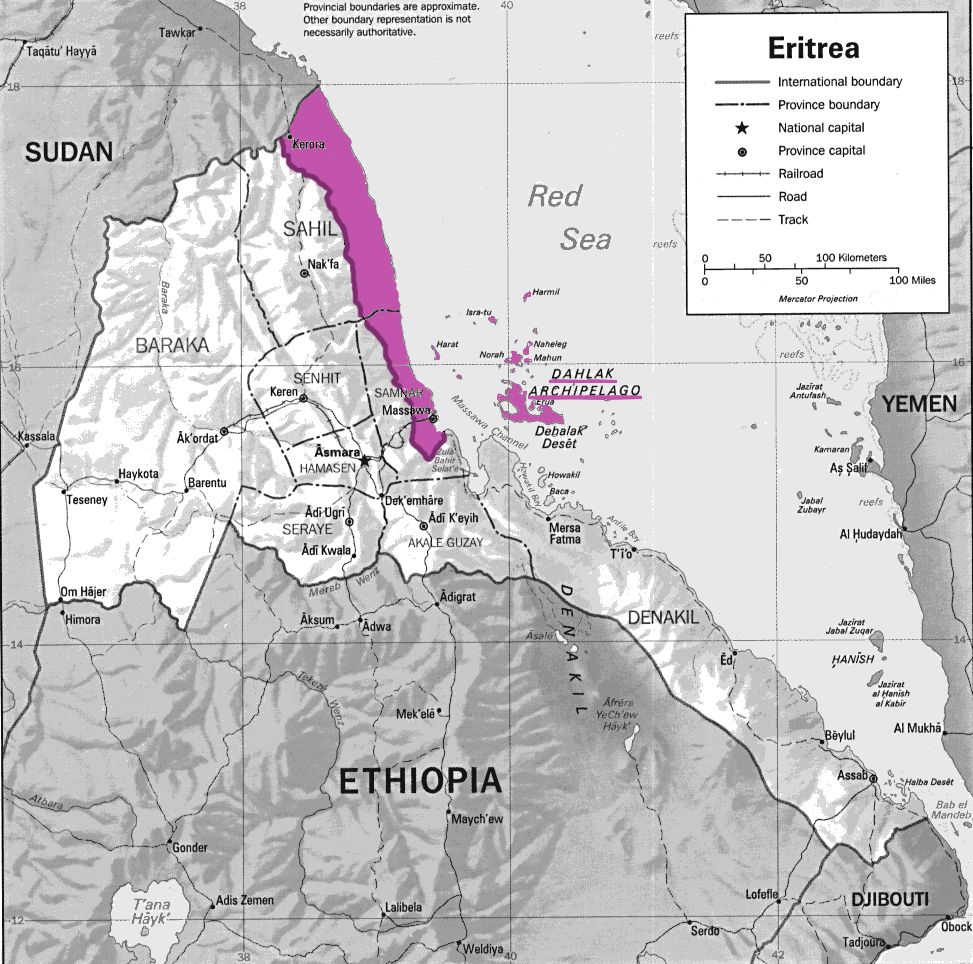 Map of the extent of the Arab Rashaida tribe in Mainland Eritrea and Dahlak Archipelago.